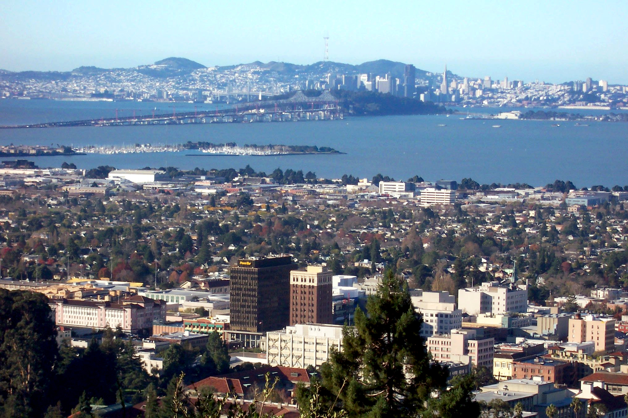 Downtown Berkeley. The Oakland - San Francisco Bay Bridge and the San Francisco downtown can be seen in the background. PowerBar headquarters are visible in Downtown Berkeley. Looking from the Berkeley Hills westward. California, USA.